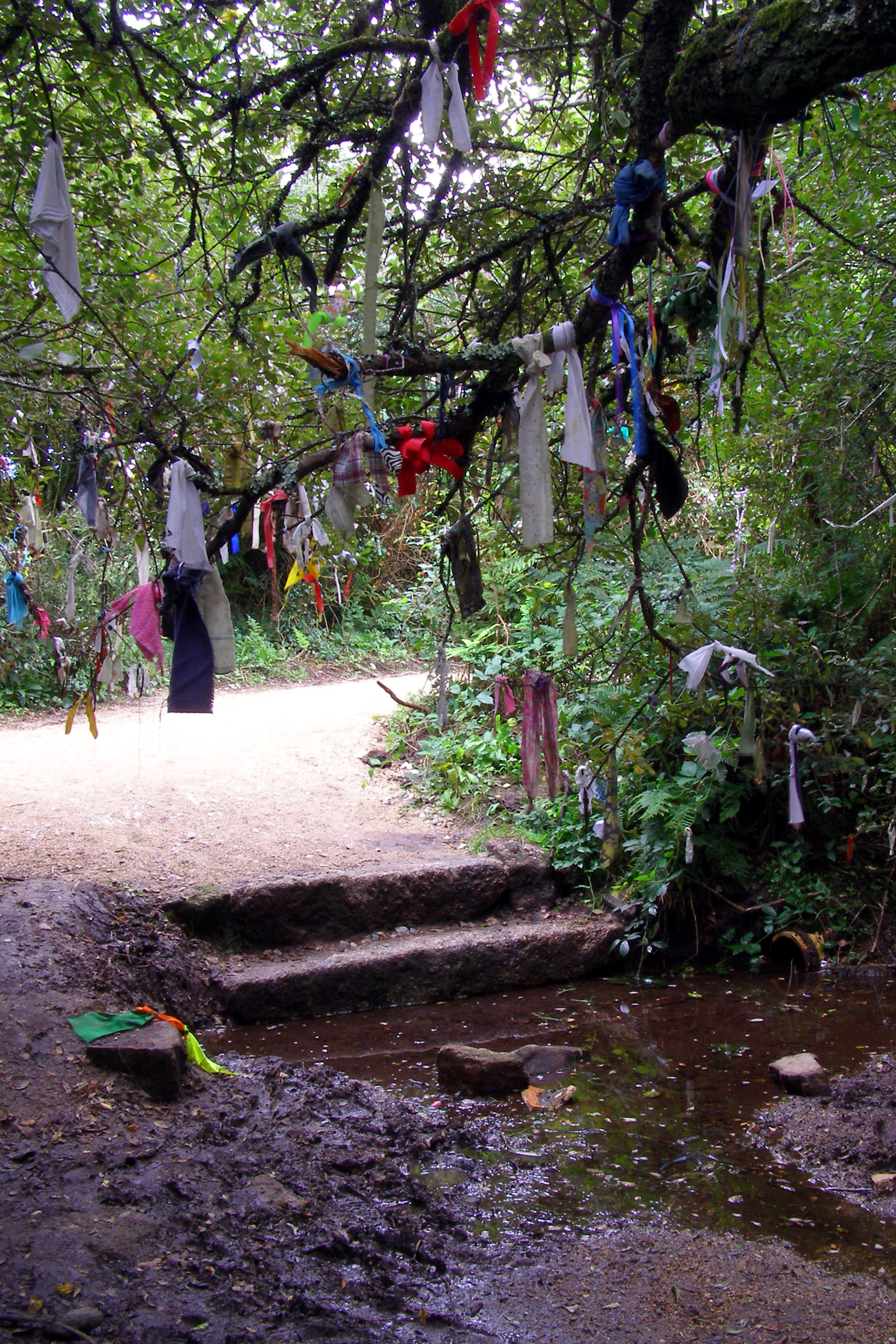 Clouties hanging from a tree near Madron Well, Cornwall.